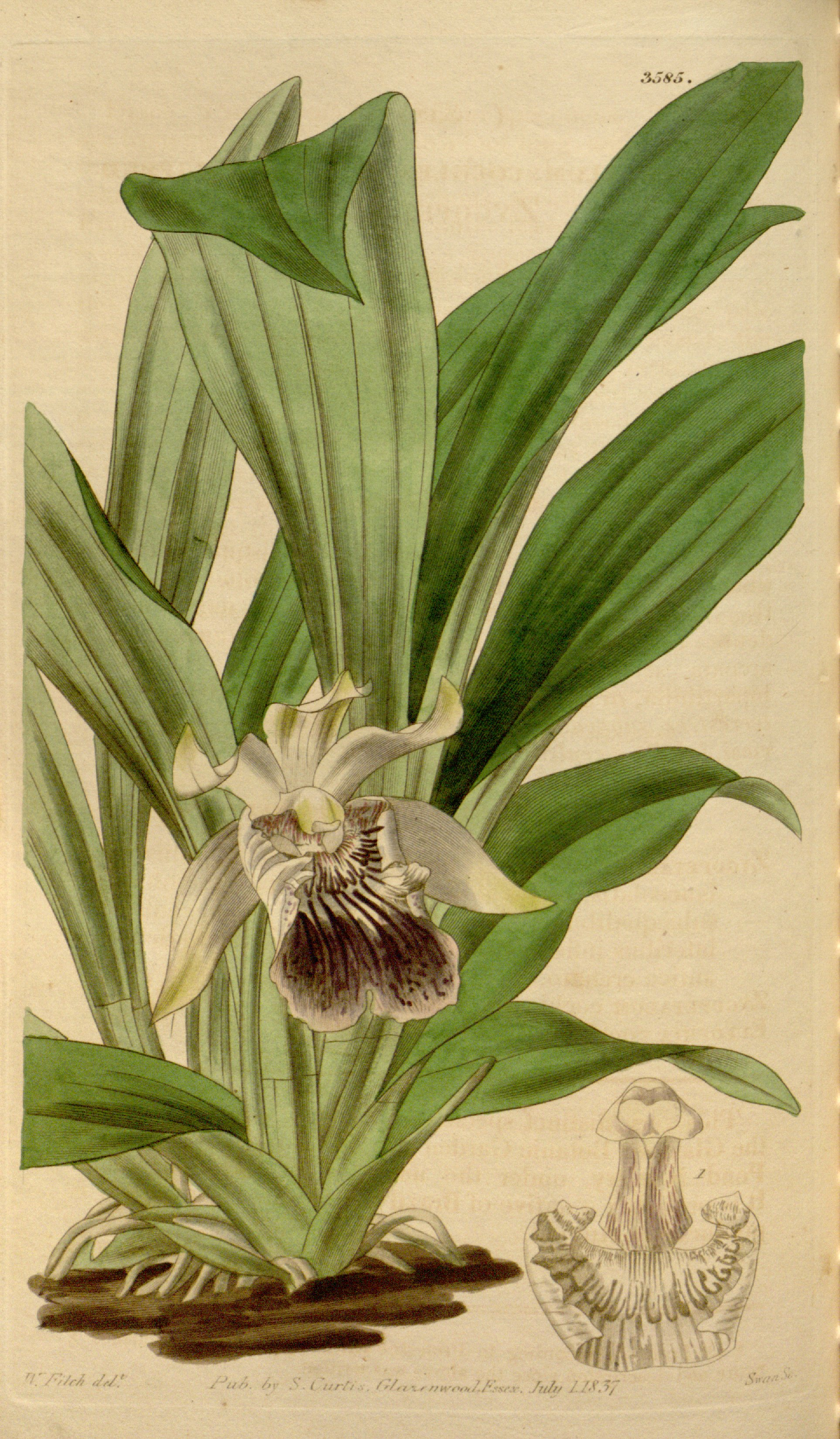 Illustration of Cochleanthes flabelliformis (as syn. Zygopetalum cochleare)